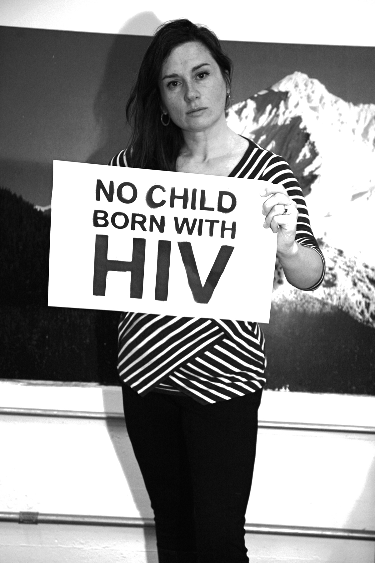 Jennifer Jako, living with HIV/AIDS, holding a sign that states "No Child Born with HIV". Jako has a healthy daughter because she had access to prenatal care and antiviral medications during pregnancy.